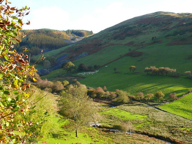 Cwm Ratgoed Cwm Ratgoed gyda phont droed yn croesi Nant Ceiswyn a hen weithfeydd mwyn yn y cefndir/ Cwm Ratgoed with a footbridge crossing the Nant Ceiswyn and old mine workings in the background